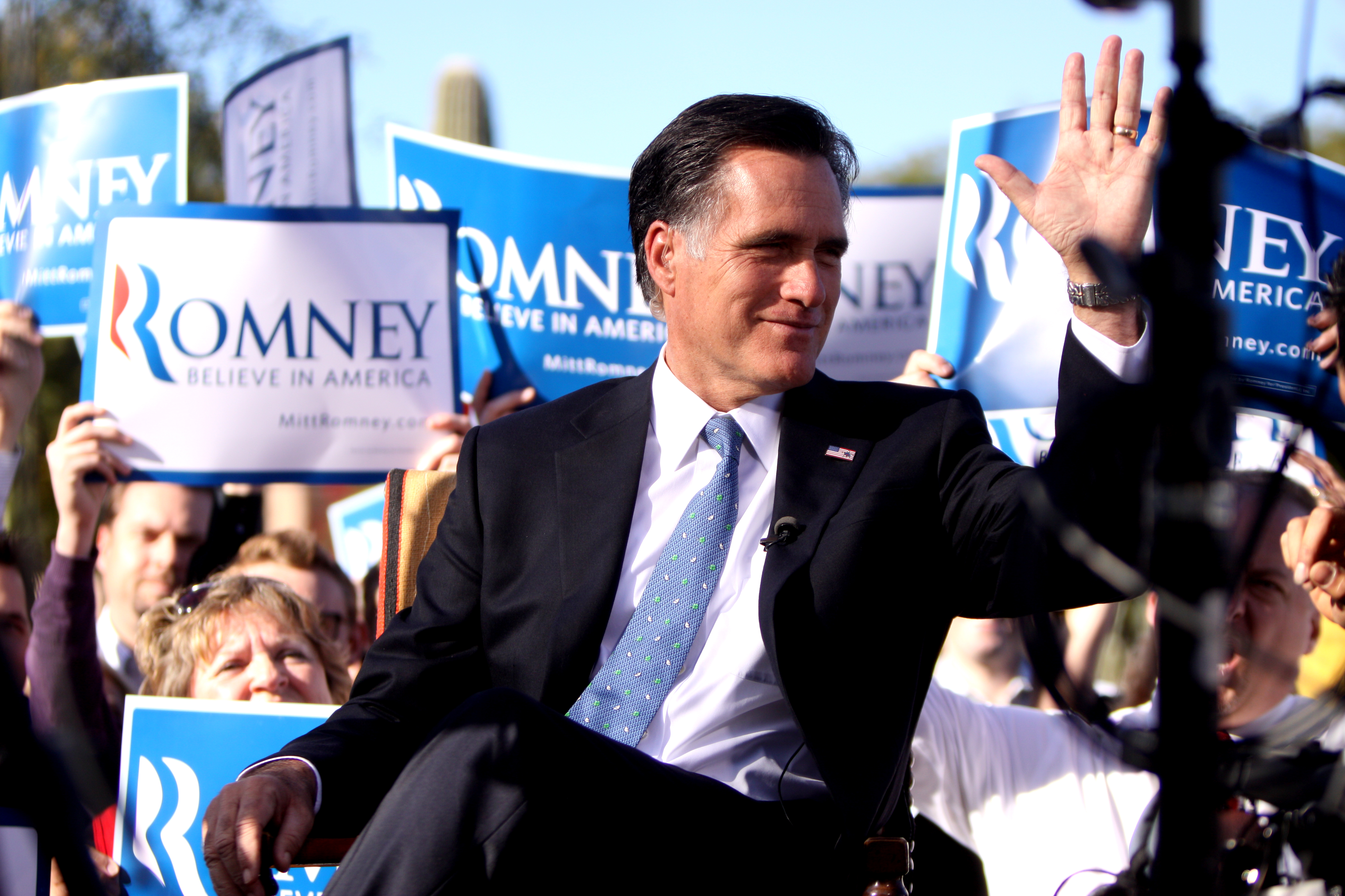 Former Governor Mitt Romney giving an interview at a supporters rally in Paradise Valley, Arizona.